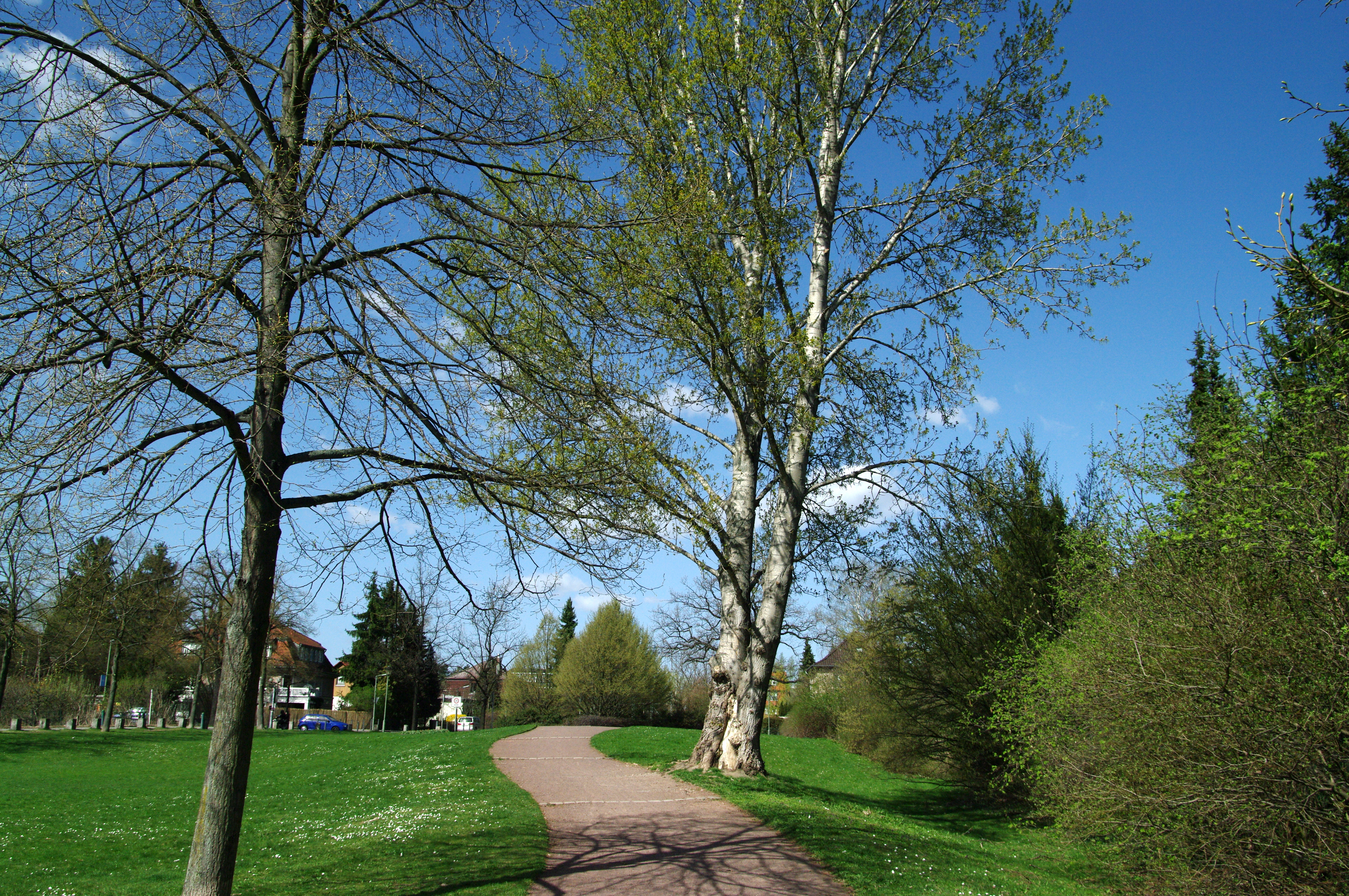 Way towards the entrance at the "Britzer Garten" park in Berlin-Britz